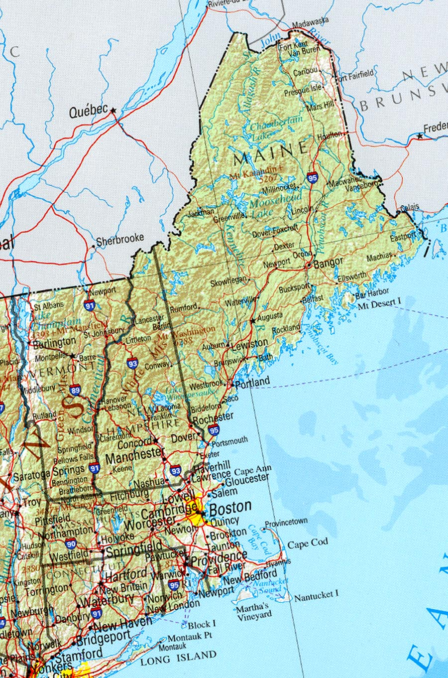 Reference Map of New England, including Vermont, Maine, New Hampshire, Massachusetts, Connecticut, Rhode Island. University of Texas, Perry-Castañeda Library Map Collection, Vermont Maps Shaded relief map with state boundaries, forest cover, place names, major highways. Portion of "The National Atlas of the United States of America. General Reference", compiled by U.S. Geological Survey 2001, printed 2002